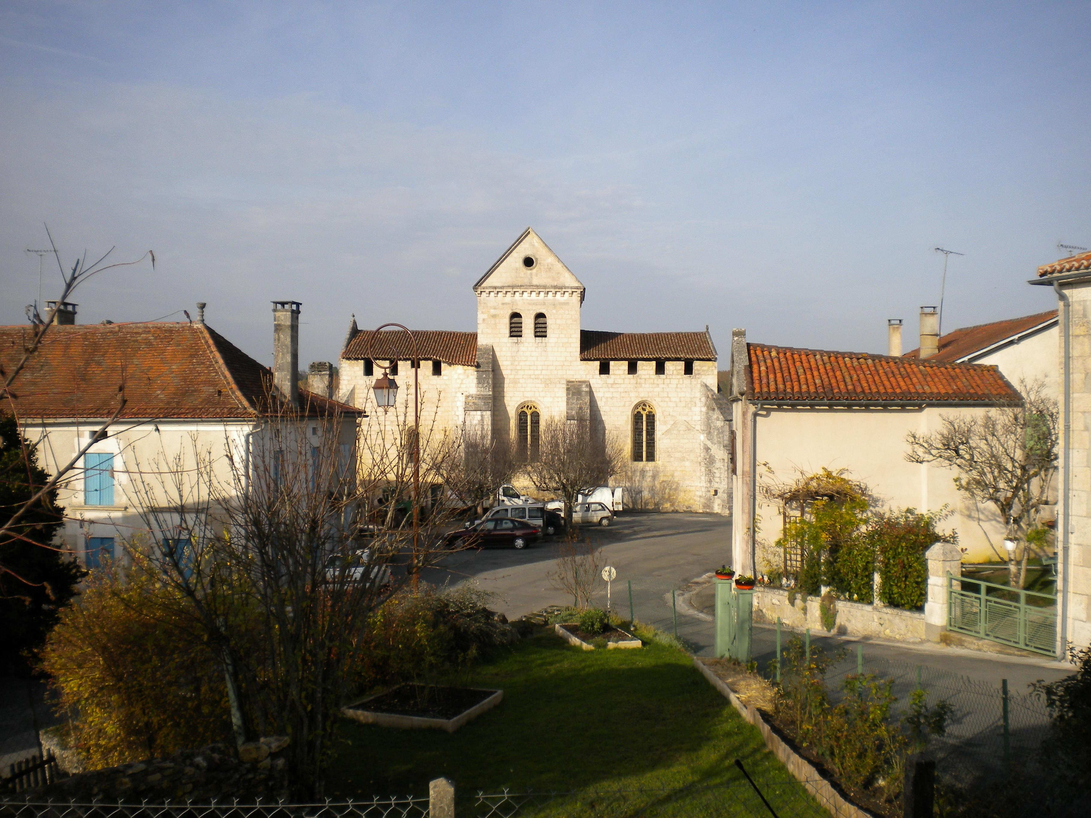 The church and village center of Monsec, Dordogne, France.